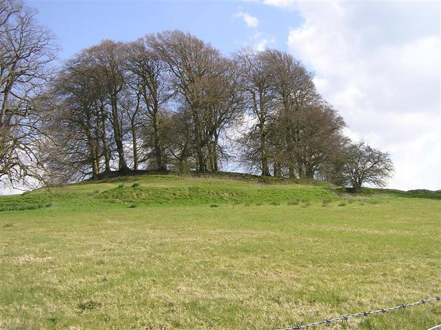 Clogher Hillfort. It is on a hill overlooking the village.